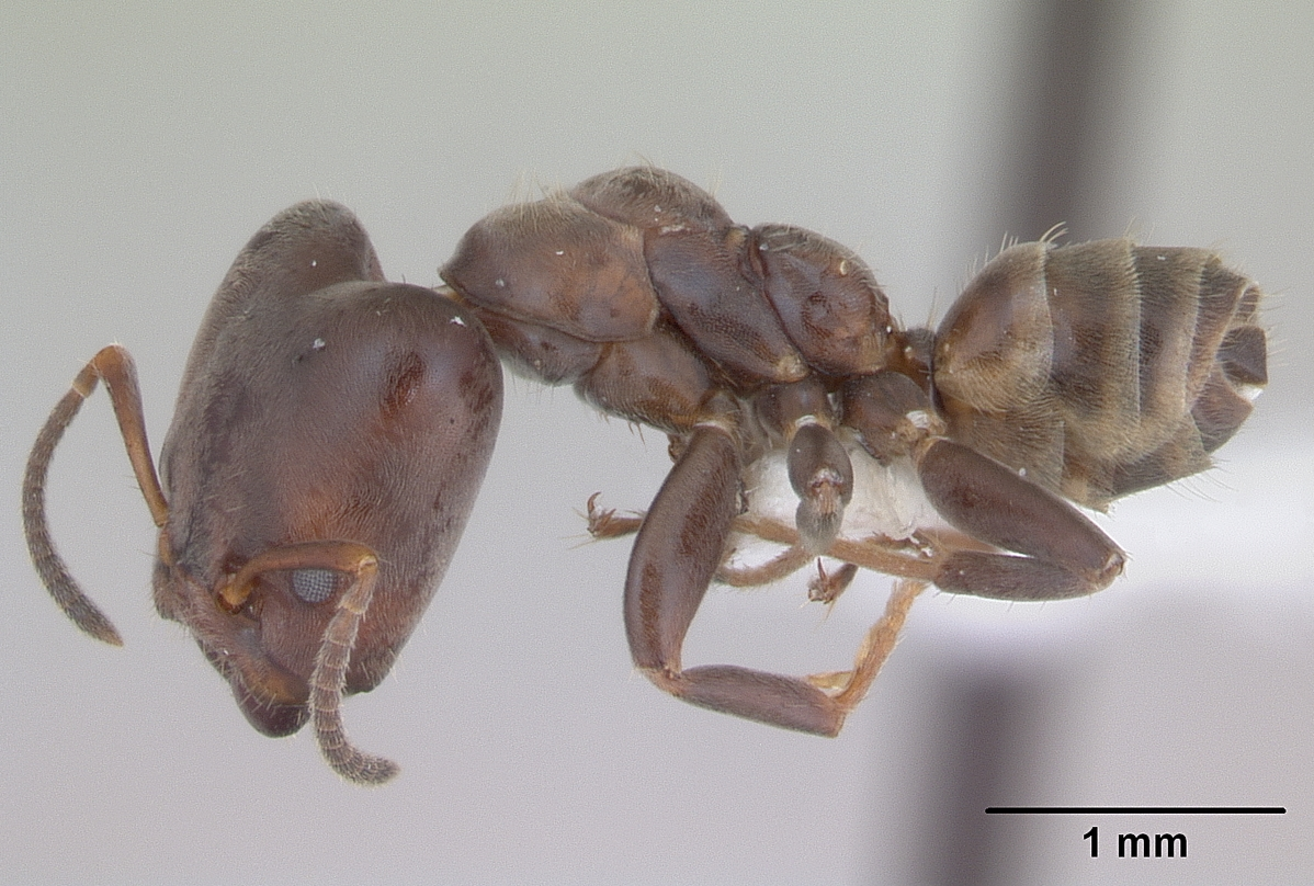 Profile view of ant Azteca luederwaldti specimen casent0173828.